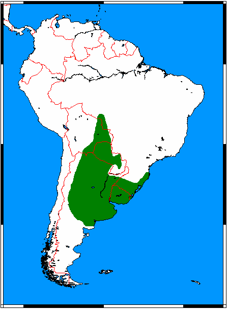 Range map for Pampas Fox (Pseudalopex gymnocercus), made by me with help of Map depending on the range map at IUCN red list.